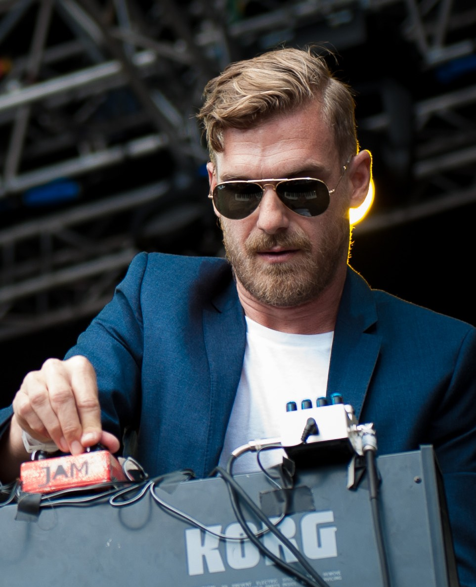 Pontus Winnberg of Amason at Way Out West 2013 in Gothenburg, Sweden